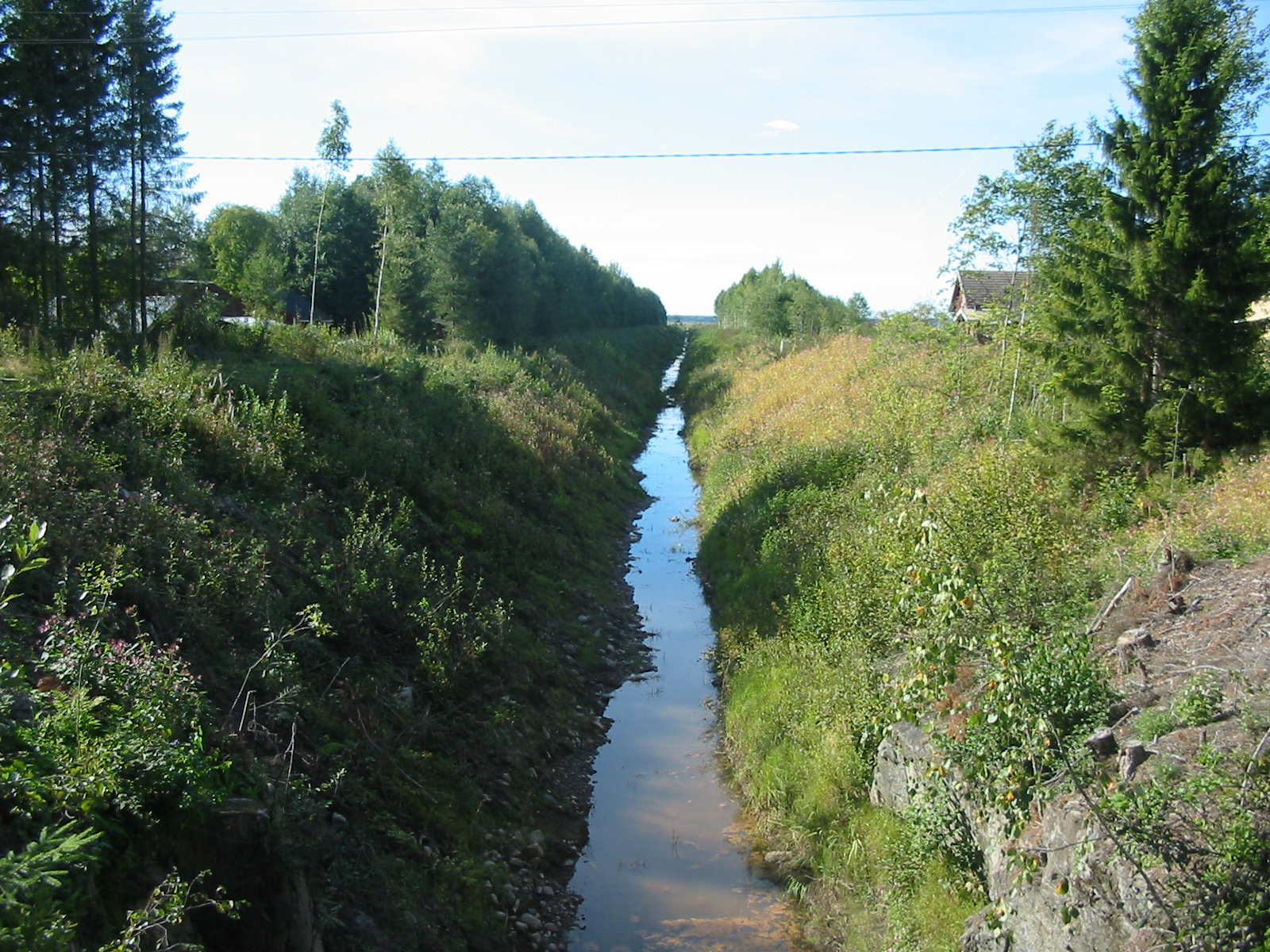 The outlet of the drained lake Leistilänjärvi in Nakkila, Filand.